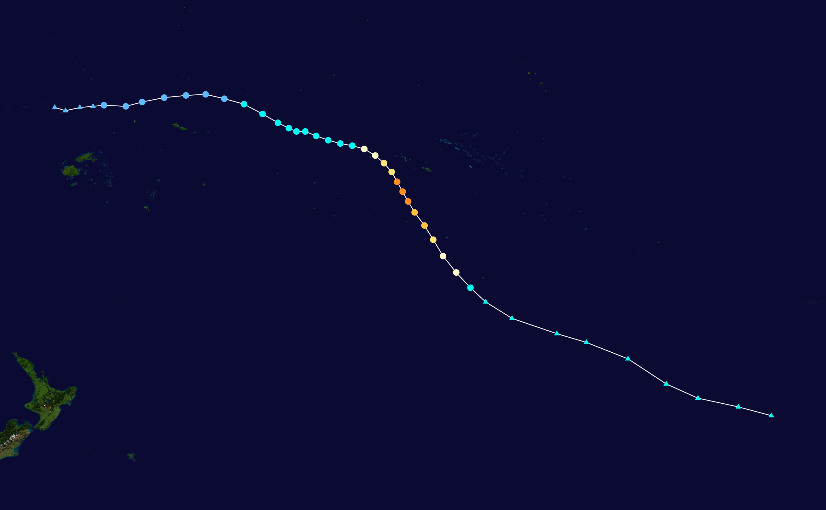 Track map of Severe Tropical Cyclone Oli of the 2009-10 South Pacific cyclone season. The points show the location of the storm at 6-hour intervals. The colour represents the storm's maximum sustained wind speeds as classified in the Saffir–Simpson scale (see below), and the shape of the data points represent the nature of the storm, according to the legend below. Saffir–Simpson scale Tropical depression≤38 mph≤62 km/h Category 3111–129 mph178–208 km/h Tropical storm39–73 mph63–118 km/h Category 4130–156 mph209–251 km/h Category 174–95 mph119–153 km/h Category 5≥157 mph≥252 km/h Category 296–110 mph154–177 km/h Unknown Storm type Tropical cyclone Subtropical cyclone Extratropical cyclone / Remnant low / Tropical disturbance / Monsoon depression